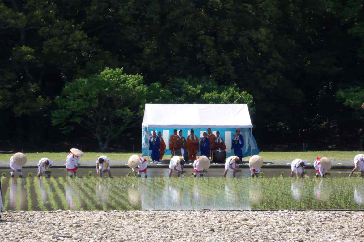 Shinden otaue hajime, rice planting at Jingu shinden